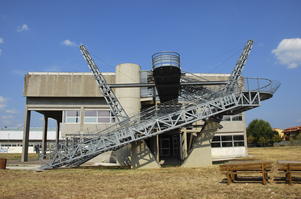 Giardino di Archimede (Archimedes' Garden) - the Museum of Mathematics, Florence, Italy. Entrance. Metallic stairway.